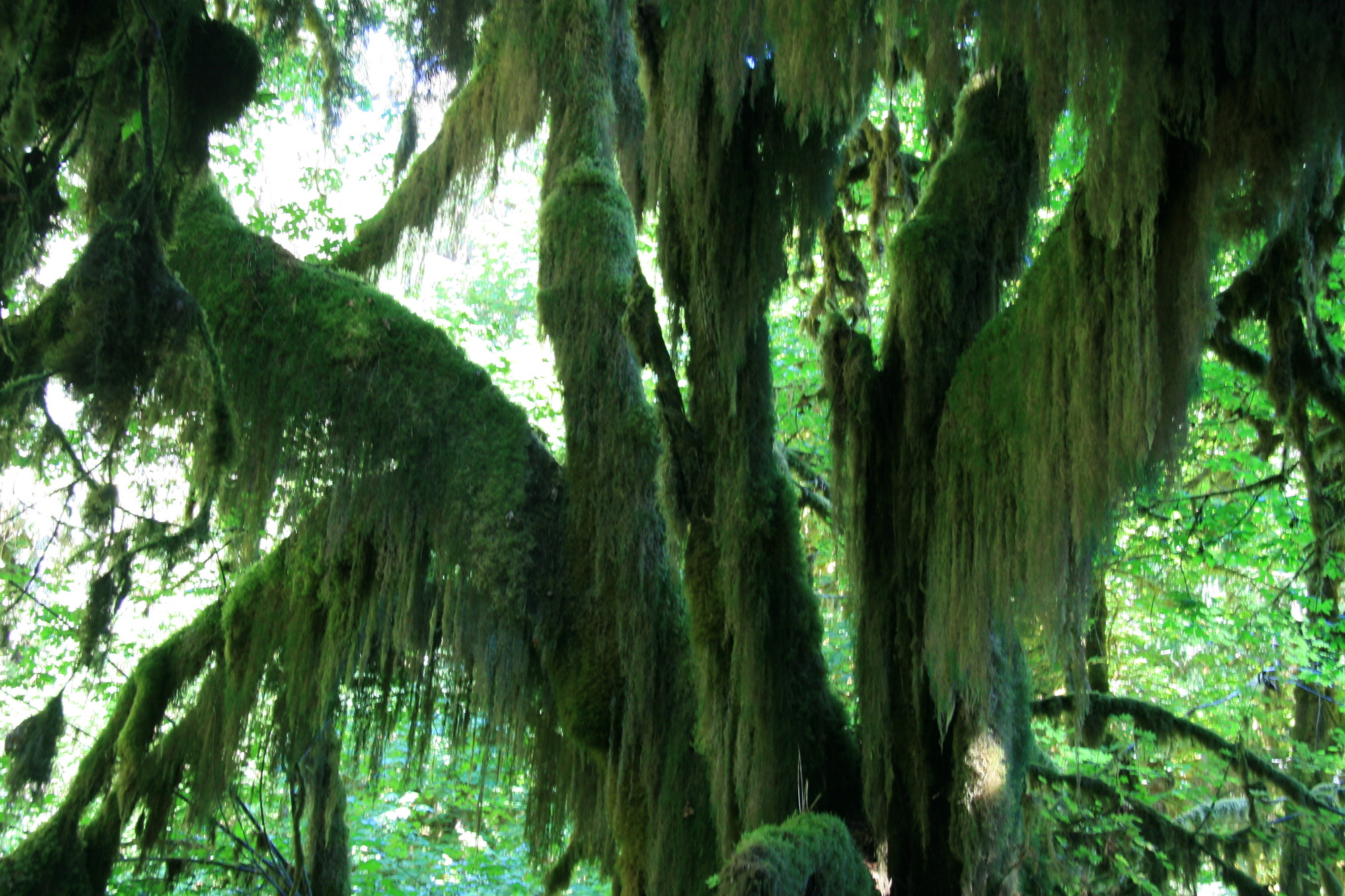 Tree branches covered in mosses in the Hall of Mosses in Hoh Rain Forest